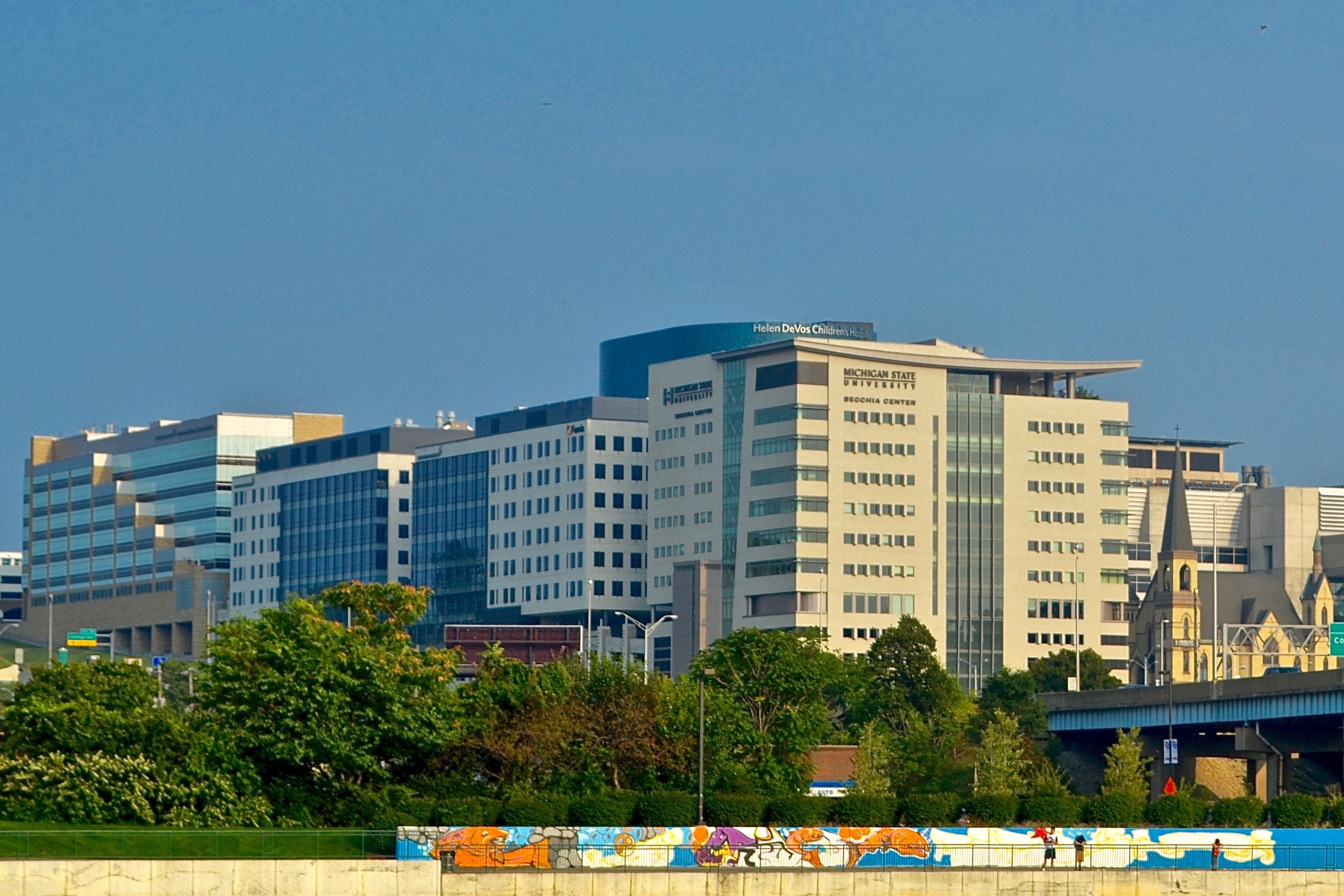 Grand Rapids Medical Mile in September 2015.